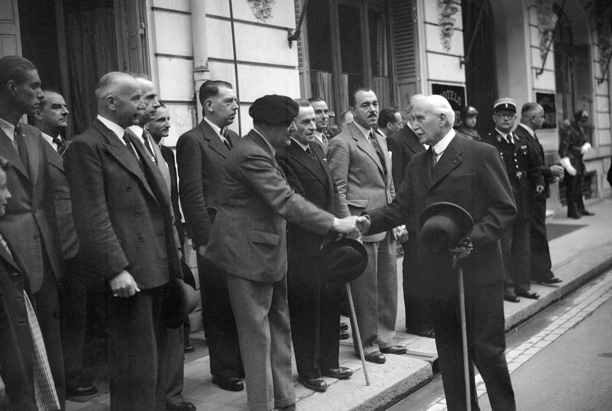 Marshal Petain, French Head Of State, Shakes Hands With Mr Xavier Vallat During The Changing Of The Guard Has Vichy On July 22Nd 1944